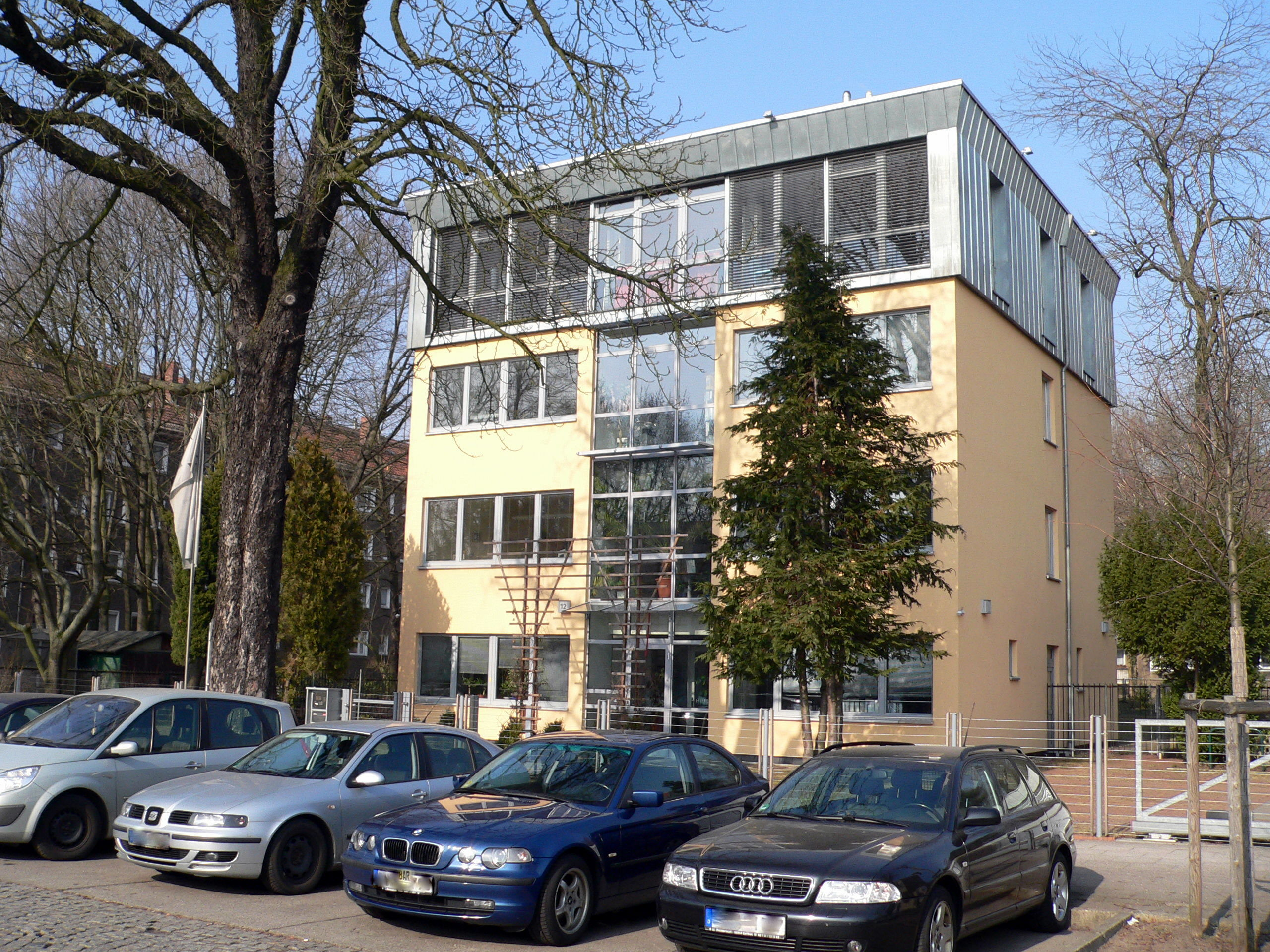 Berlin-Pankow Esplanade, former embassy building